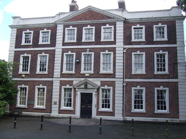 Daresbury Hall The Grade II* listed building dates back from 1759. Now offices but once the seat of Lord Daresbury.